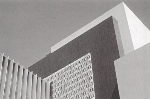 View of Los Angeles County Hall of Records from rear.